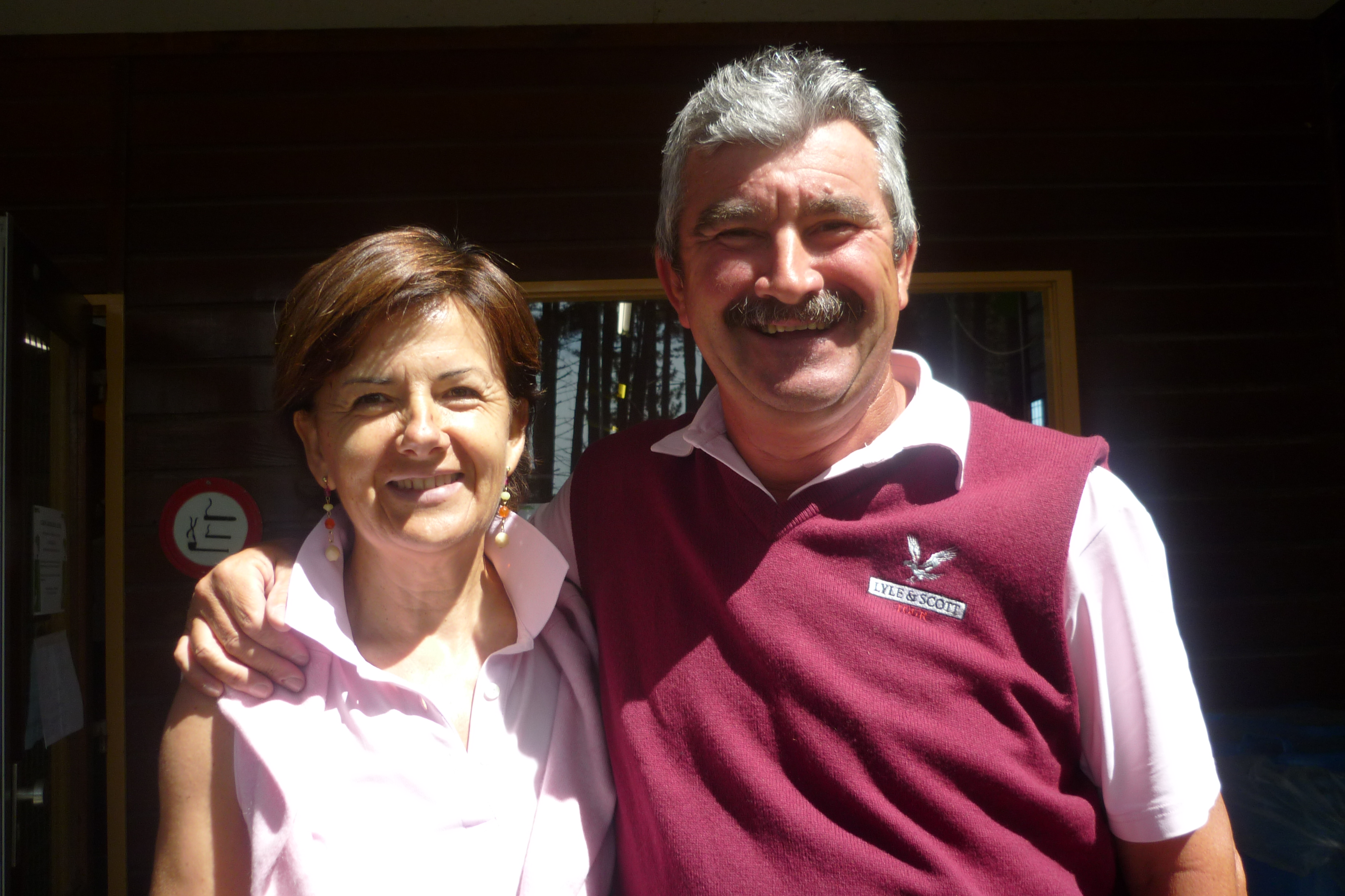 Giuseppe Cali and his wife Cosetta at the Dutch Senior_Open_2010_